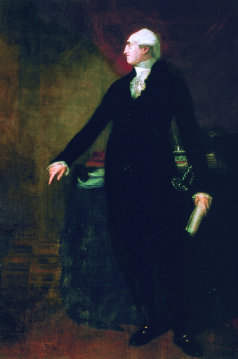 Portrait of Henry Flood (1732 – 1791) by Bartholomew Stoker (1763-1788). John Comerford later made a sketch of the portrait, from which James Heath made an engraving.